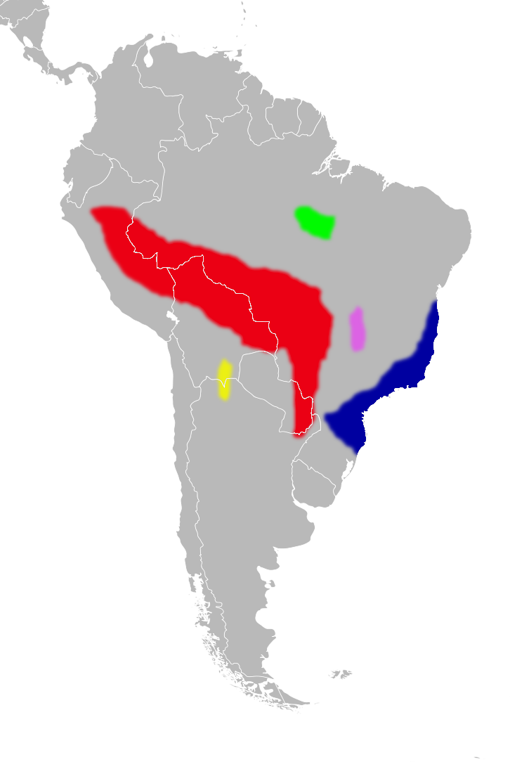 Distribution of five of six species of the rodent genus Euryoryzomys in South America (the distribution of the sixth, Euryoryzomys macconnelli, overlaps extensively with that of two others) Red: Euryoryzomys nitidus yellow: Euryoryzomys legatus blue: Euryoryzomys russatus pink: Euryoryzomys lamia green: Euryoryzomys emmonsae.